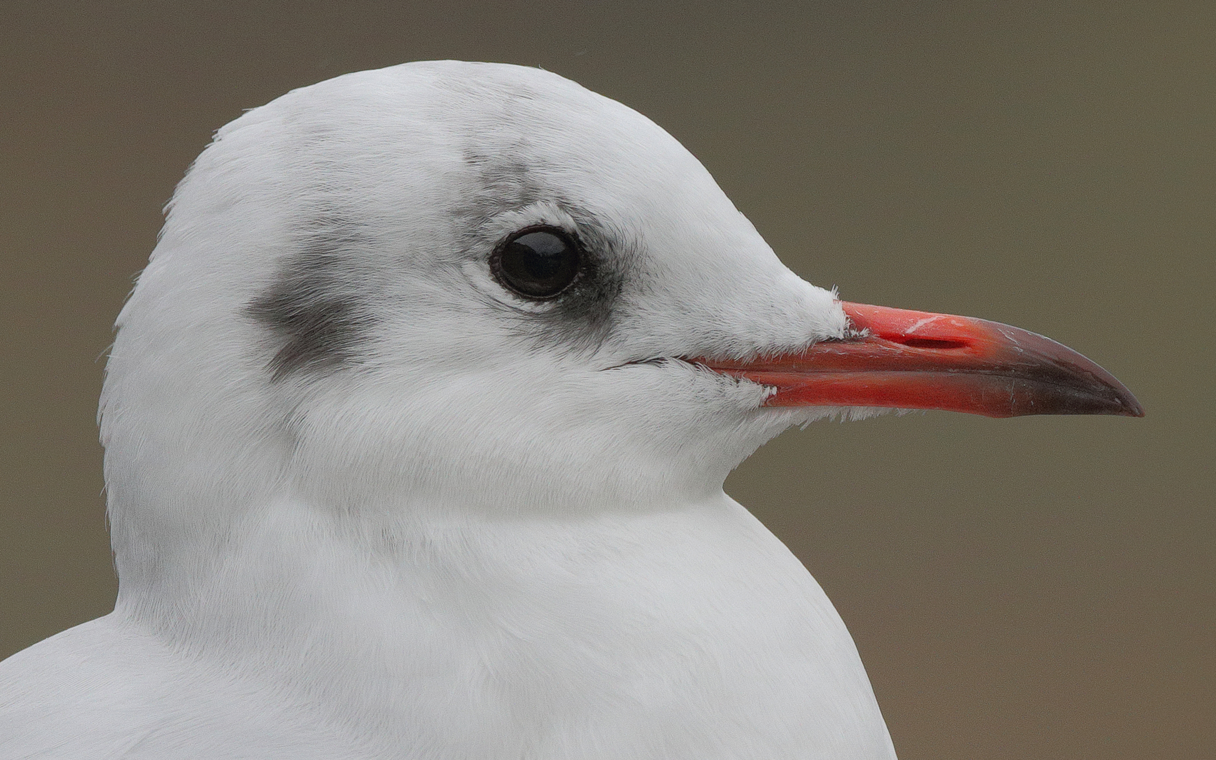 Black-headed gull (Chroicocephalus ridibundus) in winter plumage in Bamberg, Germany.